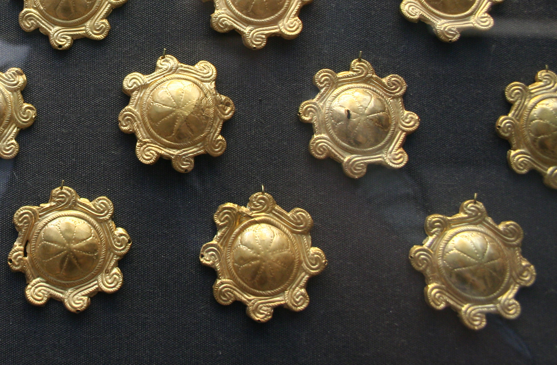 Part of the Aegina treasure. Some of 54 identical gold plaques. A convex boss is decorated with a rosette of petals. On the rim eight connected spirals. British Museum Catalogue Jewellery #692-745. Description after Higgins: The Aegina Treasure, 1979